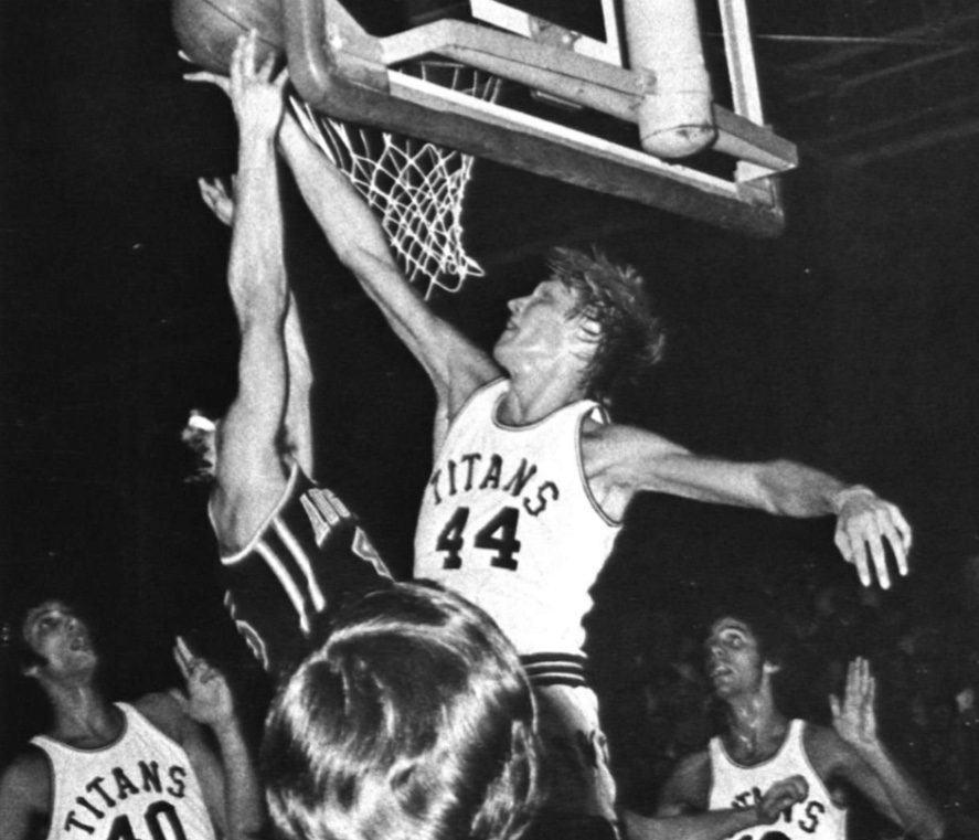 Illinois Wesleyan University Titans Basketball player Jack Sikma from the 1977 “Wesleyana” yearbook.